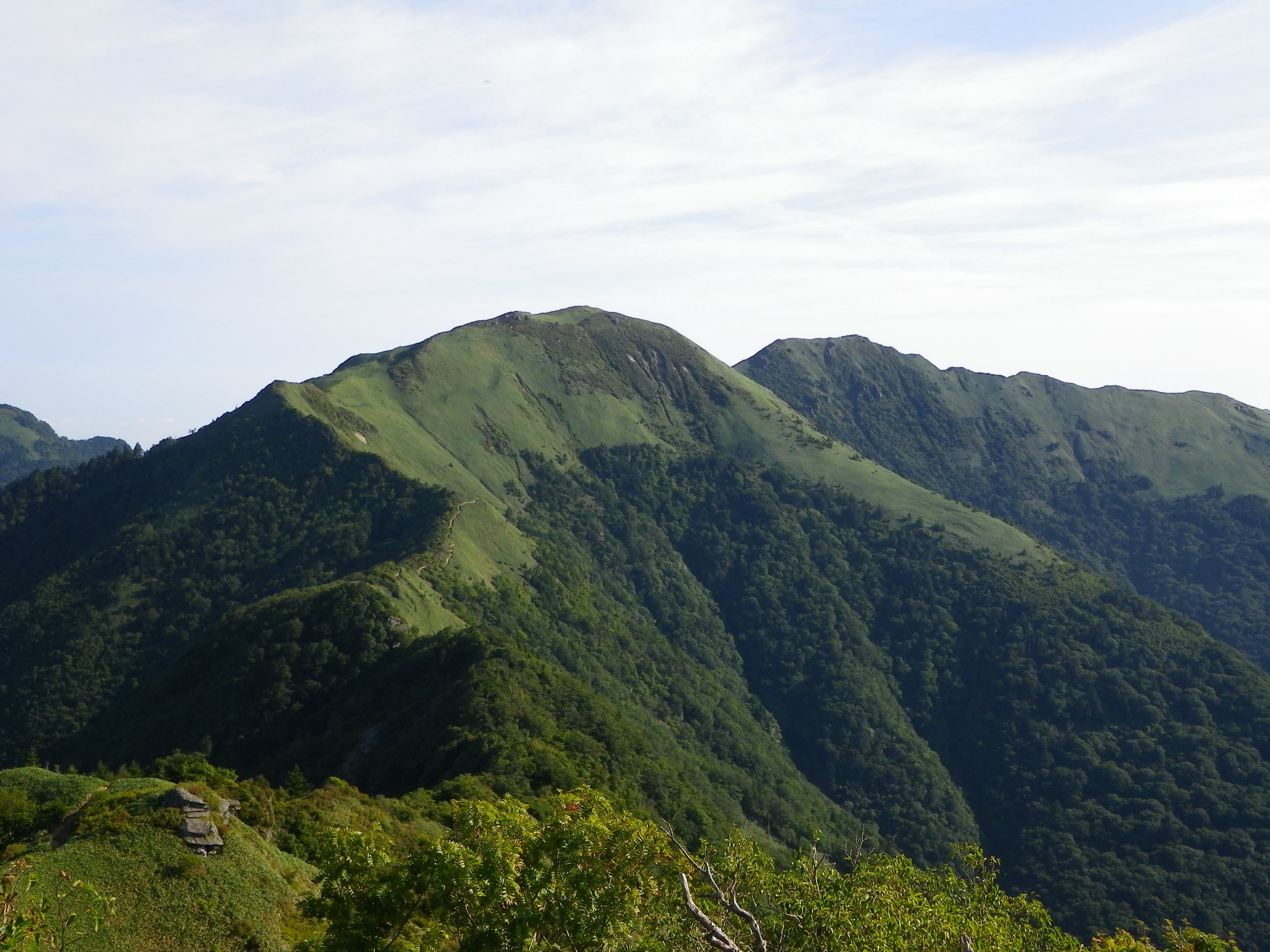 Mount Sasa (Sasa-ga-mine) as seen from the southwest in the boder of Kochi and Ehime Prefecture, Shikoku. Shot at Mount Kanpu. Mount Chichi in the back right.